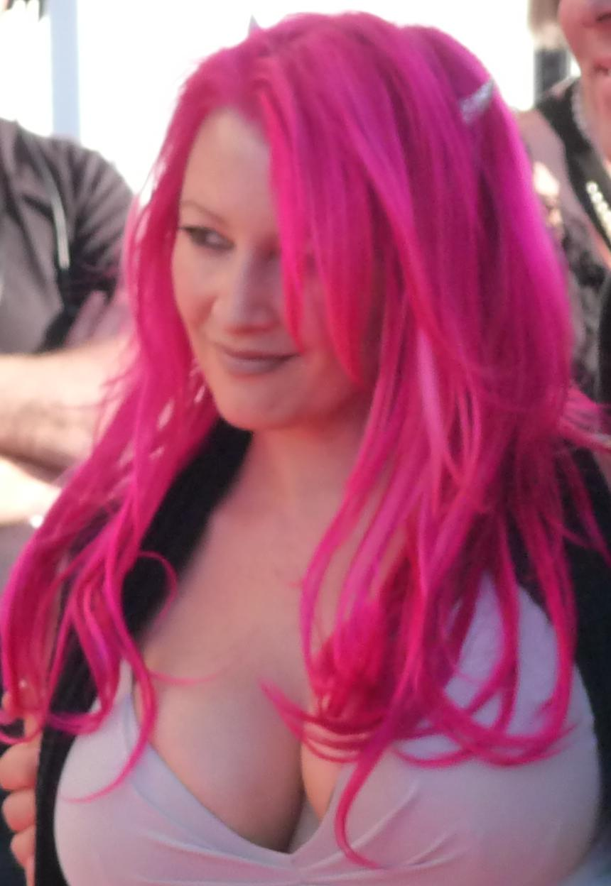 Jane Goldman on the red carpet at the BAFTA Awards, held at the Royal Festival Hall, on the Southbank in London.